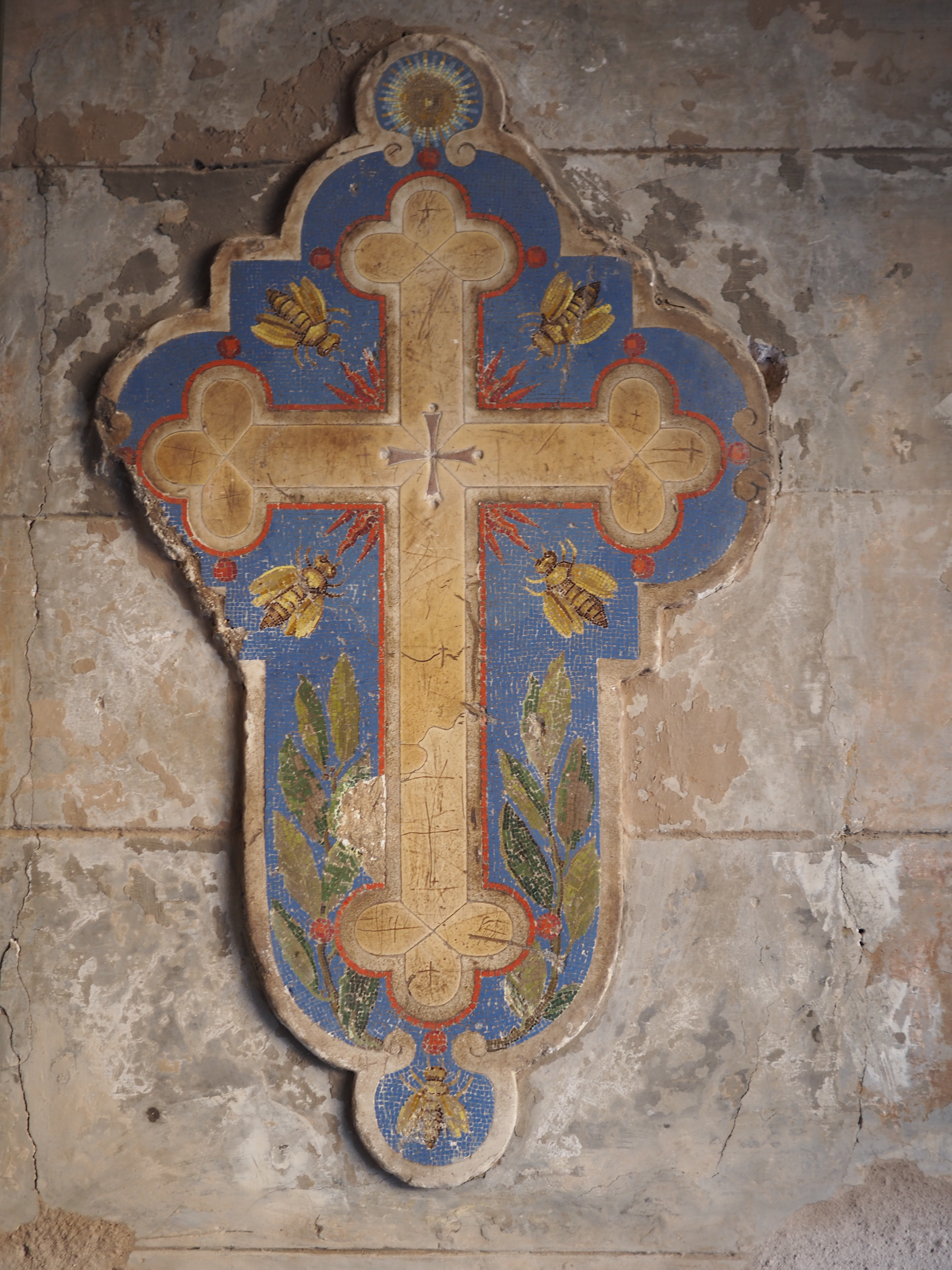 Santa Maria in Cappella (Rome); Cross Pope Urban VIII